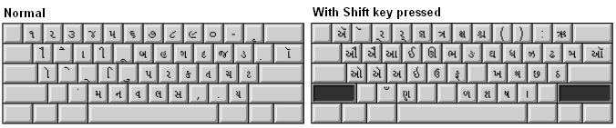 Created this image on my machine.